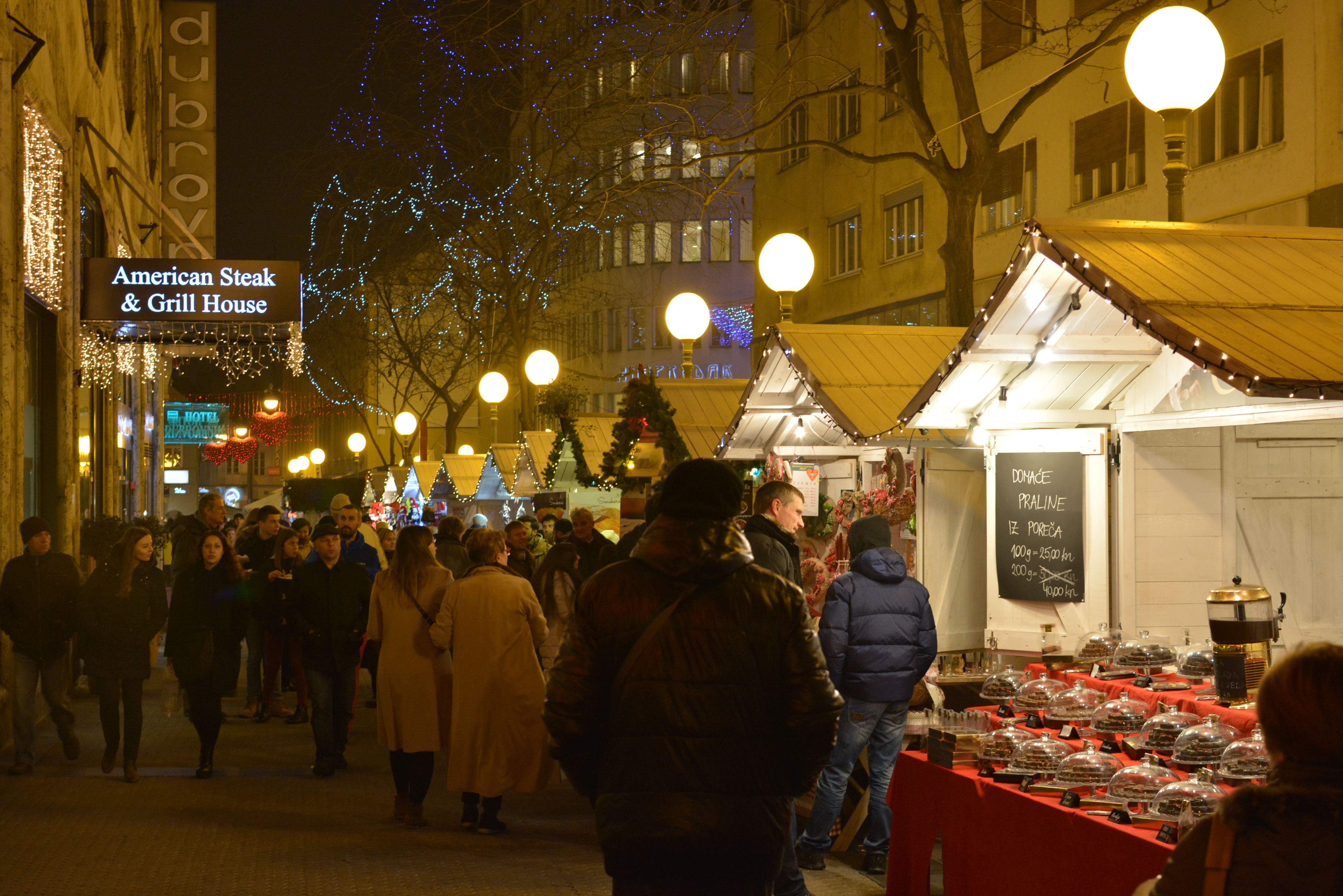 Gajeva Street, Zagreb